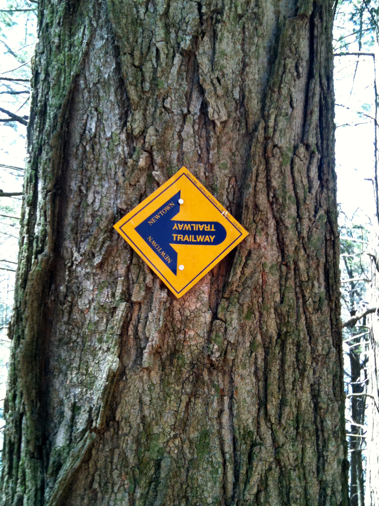 Lillinonah Trail. Blue-Blazed CFPA foot path which circles the upper Paugussett State Forest (and Lake Lillinonah/Housatonic River) in Newtown, CT. Al's Trail Association (Newton Trail Association) Newtown Trailway sign on tree on Lillinonah Trail. Blue-Blazed CFPA foot path which circles the upper Paugussett State Forest (and Lake Lillinonah/Housatonic River) in Newtown, CT